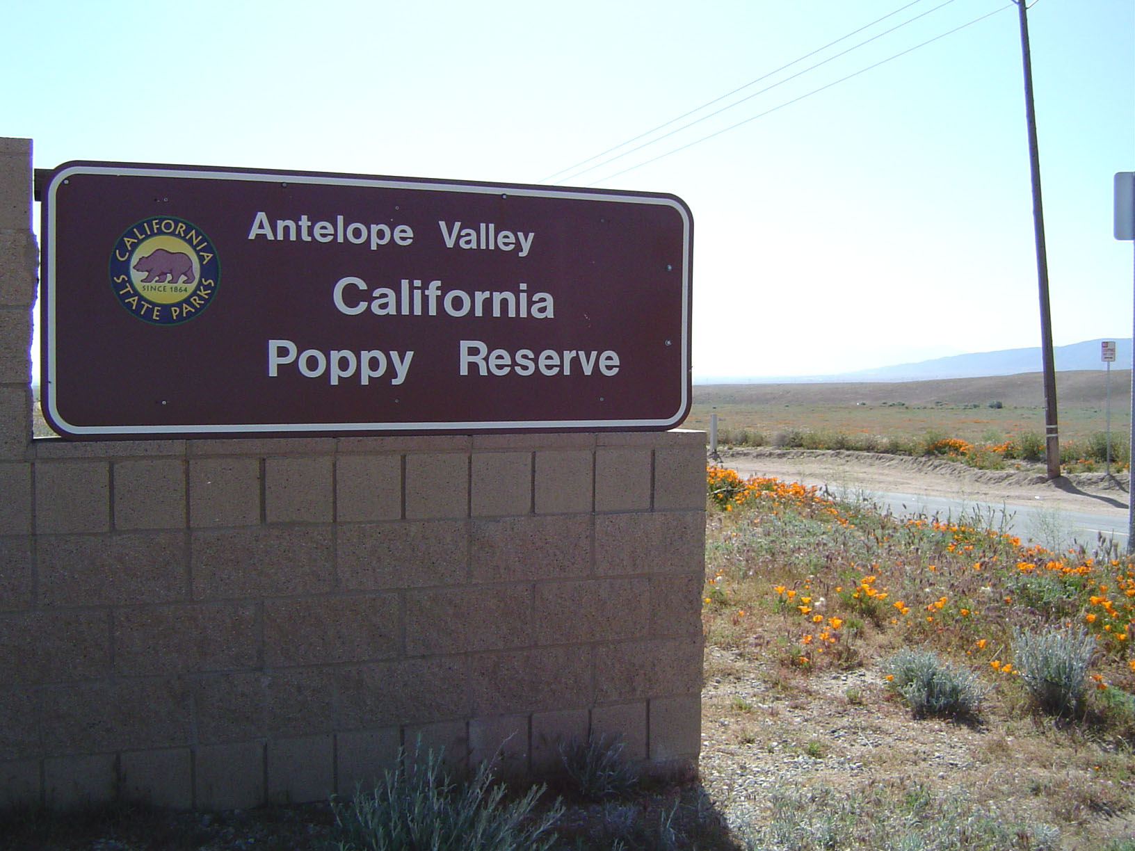 The entrance sign of the Antelope Valley California Poppy Reserve. Located in the Antelope Valley of the western Mojave Desert in Southern California. Photographed and uploaded by user:Geographer. — April 16, 2005.